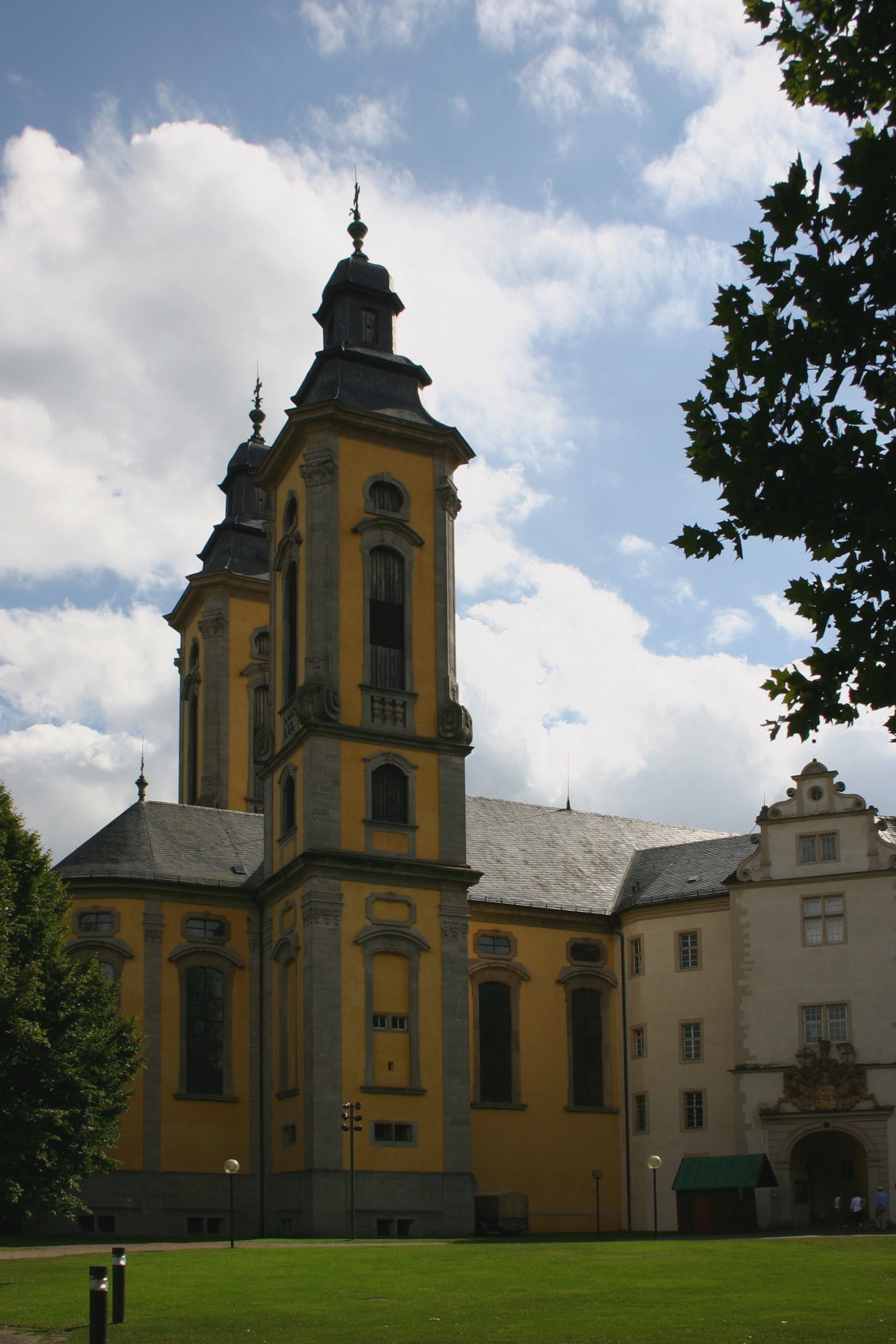 Palace church in Bad Mergentheim.